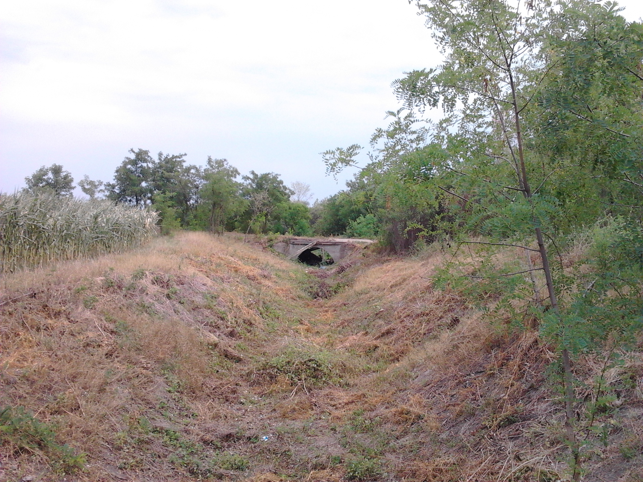 One of the oldest stonebridge of Maklár is in the vicinity of the village.